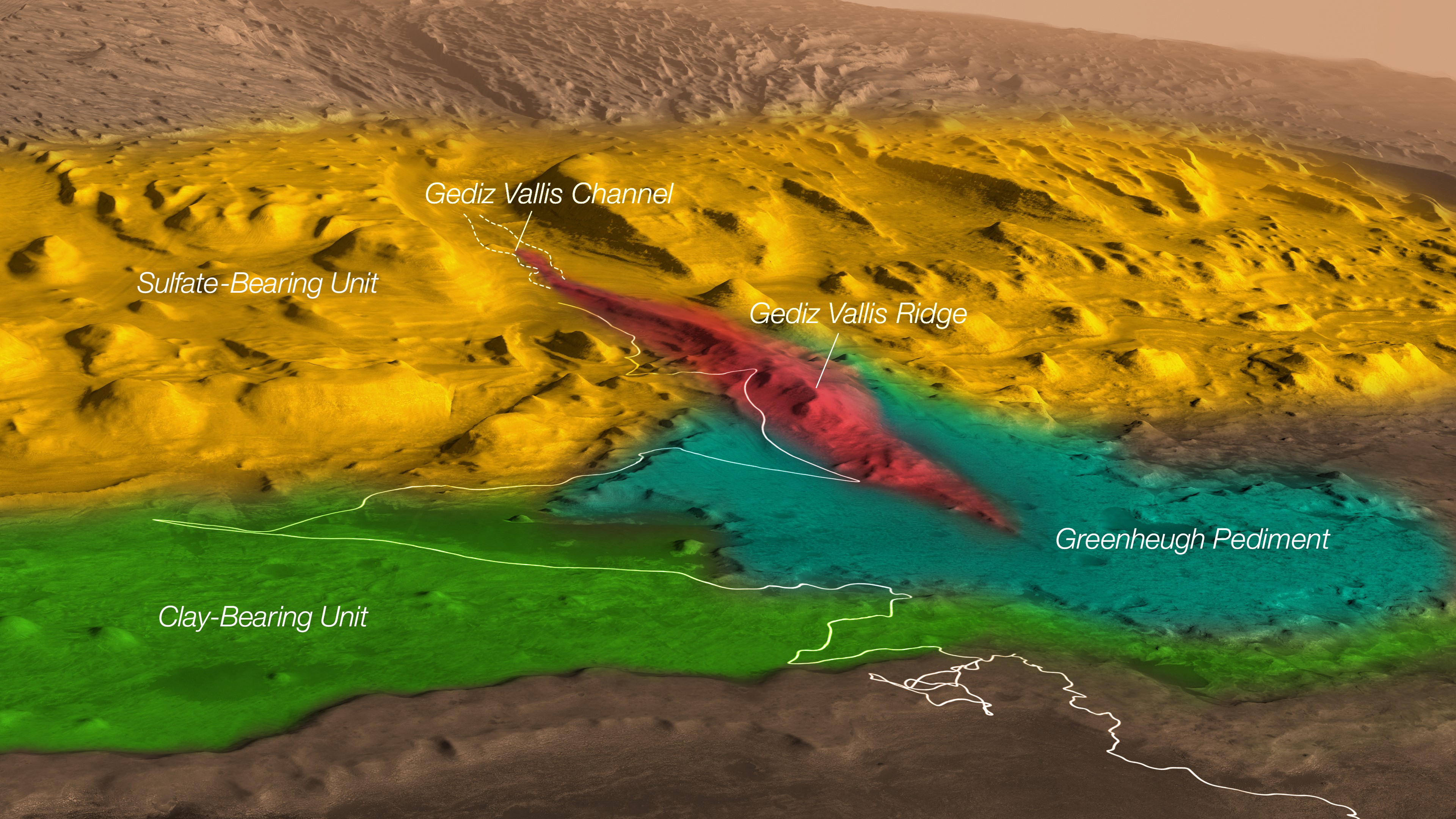 MAY 15, 2019 - Curiosity's Proposed Path up Mount Sharp This animation shows a proposed route for NASA's Curiosity rover, which is climbing lower Mount Sharp on Mars. The annotated version of the map labels different regions that scientists working with the rover would like to explore in coming years. A flyover video explains them in more detail. Data used in creating this map came from several instruments on NASA's Mars Reconnaissance Orbiter (MRO), including the High Resolution Imaging Science Experiment (HiRISE), Compact Reconnaissance Imaging Spectrometer for Mars (CRISM) and the Context Camera (CTX). The High Resolution Stereo Camera (HRSC) instrument on the European Space Agency's Mars Express also contributed data. The University of Arizona, in Tucson, operates HiRISE, which was built by Ball Aerospace & Technologies Corp., in Boulder, Colorado. The Johns Hopkins University Applied Physics Laboratory in Laurel, Maryland, led the work to build CRISM, which it operates in coordination with an international team of researchers from universities, government and the private sector. Malin Space Science Systems in San Diego built and operates CTX. NASA's Jet Propulsion Laboratory in Pasadena California, a division of Caltech, manages the Mars Reconnaissance Orbiter Project for NASA's Science Mission Directorate in Washington.